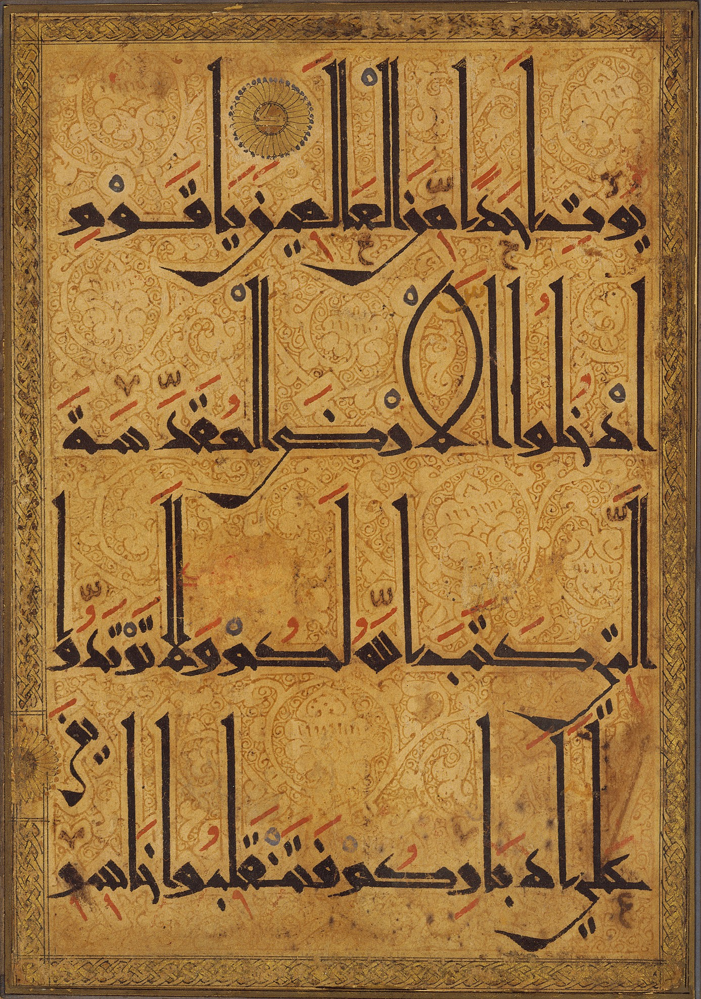 Folio from a non-illustrated manuscript; Codices